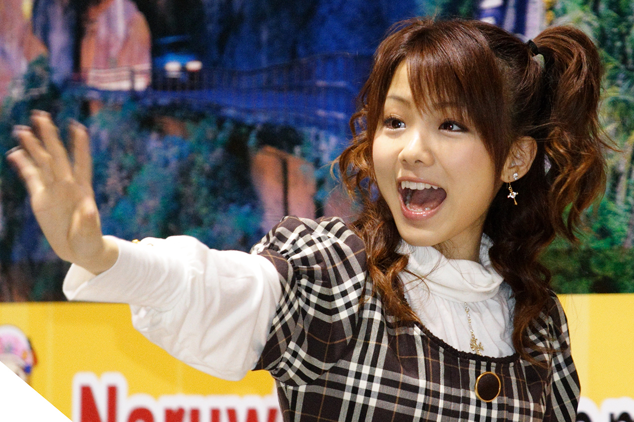 Morning Musume member Reina Tanaka at Taipei Airport.